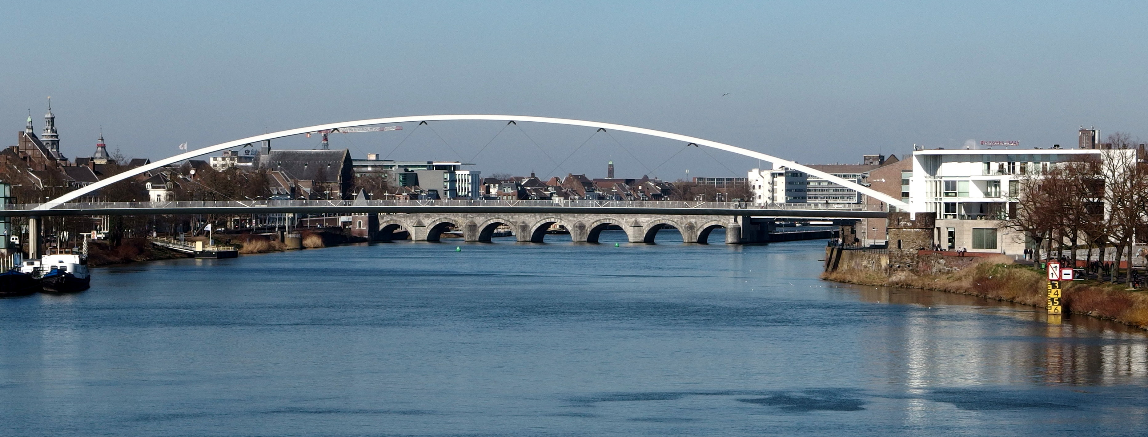 2015-03-12 in Maastricht; Meuse seen from Kennedybrug to the north.